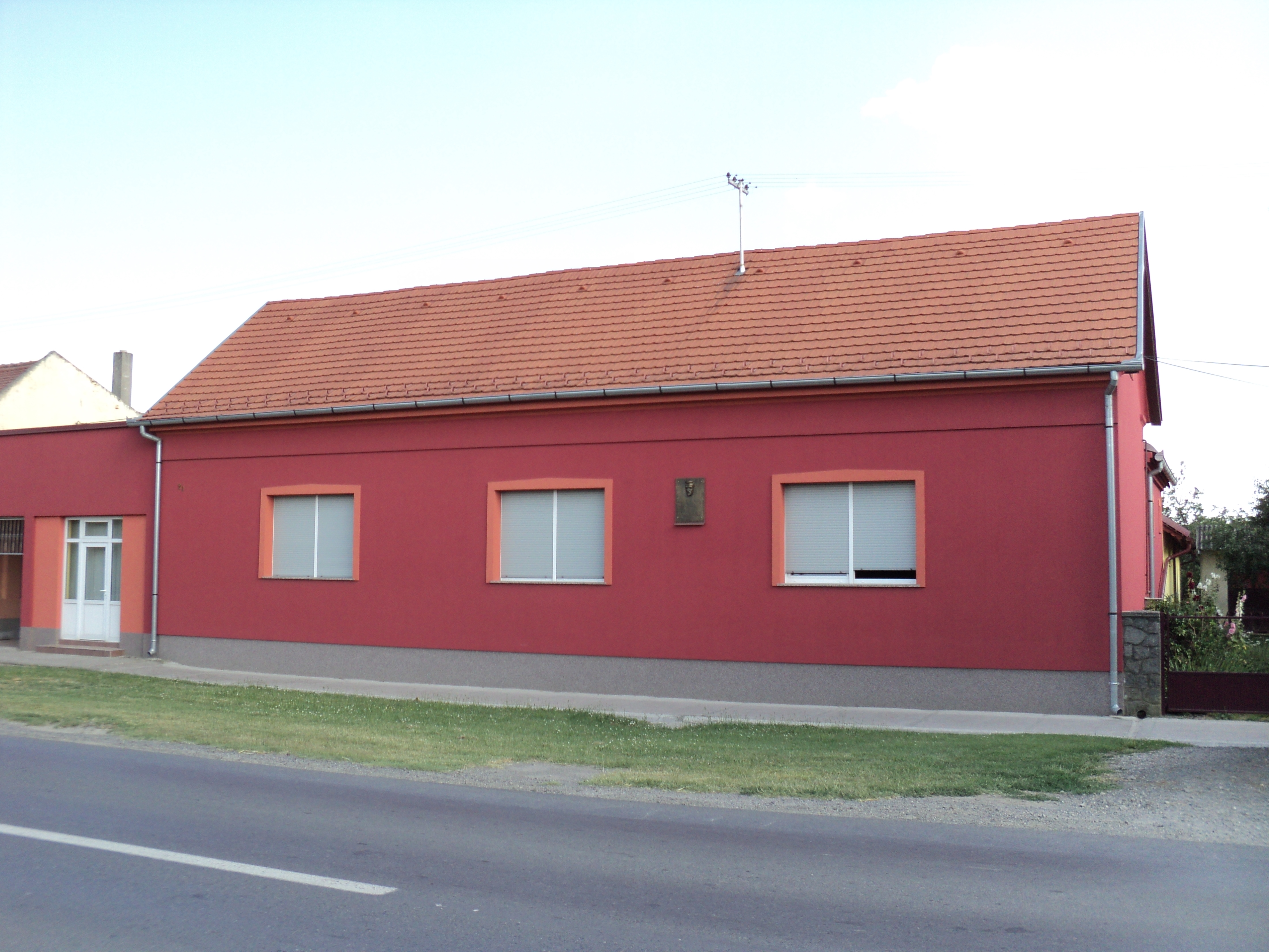 Birth house of croatian poet August Harambašić in Donji Miholjac.